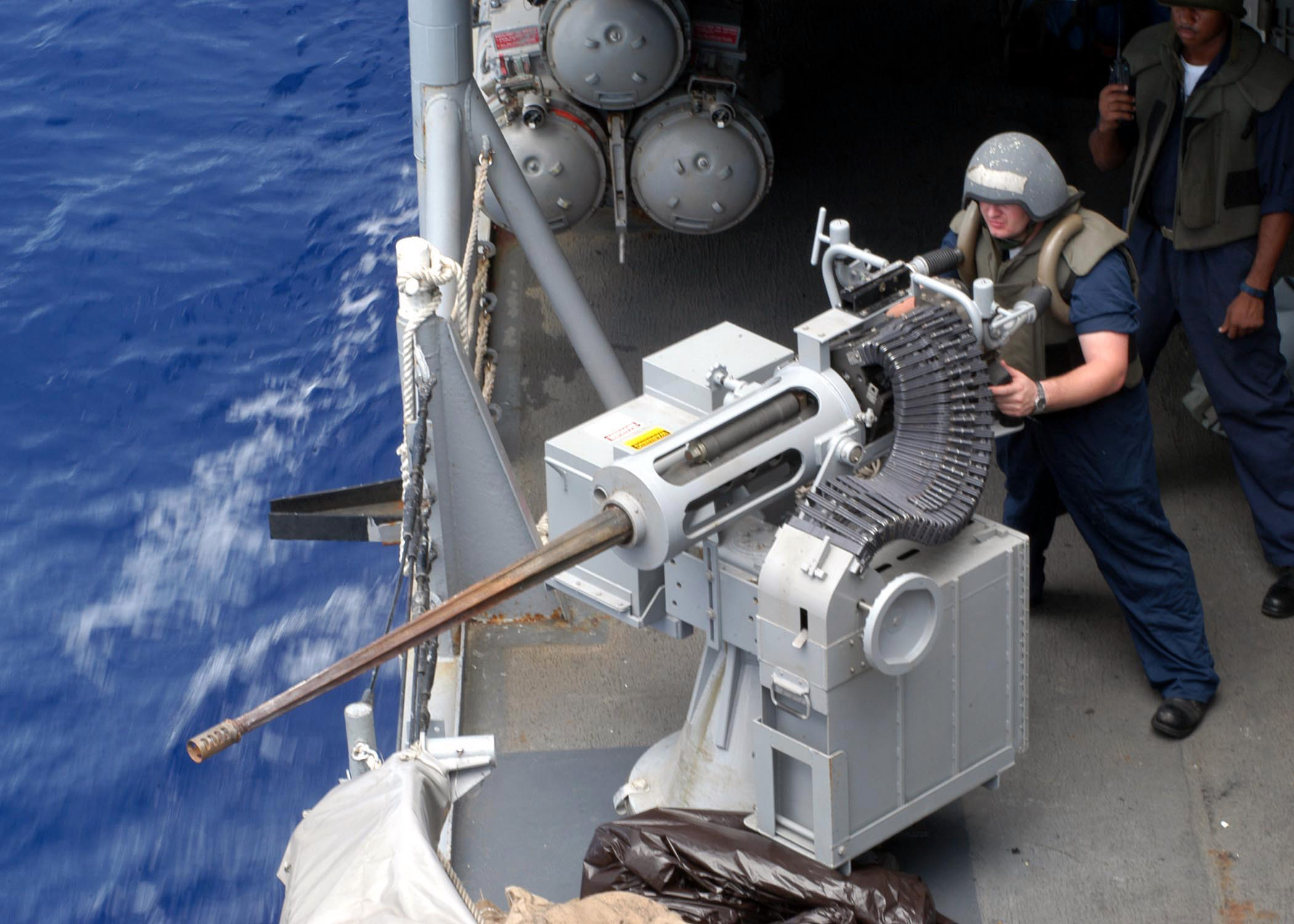 Operations Specialist 2nd Class Brian Norman defends the ship with a Mark 38 25mm machine gun supported by the phone talker, Torpedoeman's Mate 2nd Class Edwin Holland during a small boat training exercise aboard the guided missile frigate USS Ingraham (FFG 61). The exercise is being conducted with the support of the guided missile destroyer USS Lassen (DDG 82) and the guided missile cruiser USS Antietam (CG 54). The ships are part of the USS Carl Vinson (CVN 70) Strike Group conducting battle group operations in the Western Pacific Ocean.